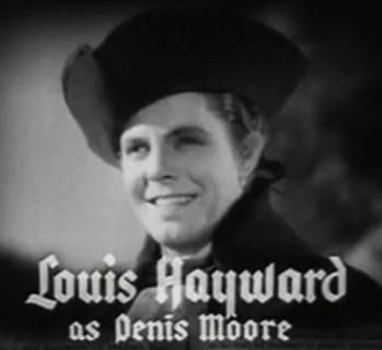 British actor Louis Hayward (1909-1985) in Anthony Adverse (1936) - trailer (cropped screenshot)